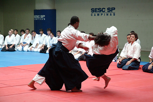 Aikido - Tomô?